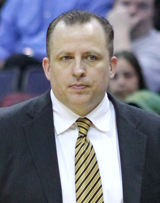 Head coach Tom Thibodeau of the Chicago Bulls looks on from the sideline against the Washington Wizards at the Verizon Center in Washington on February 28, 2011 in Washington, DC.